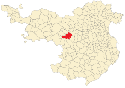 Santa Pau